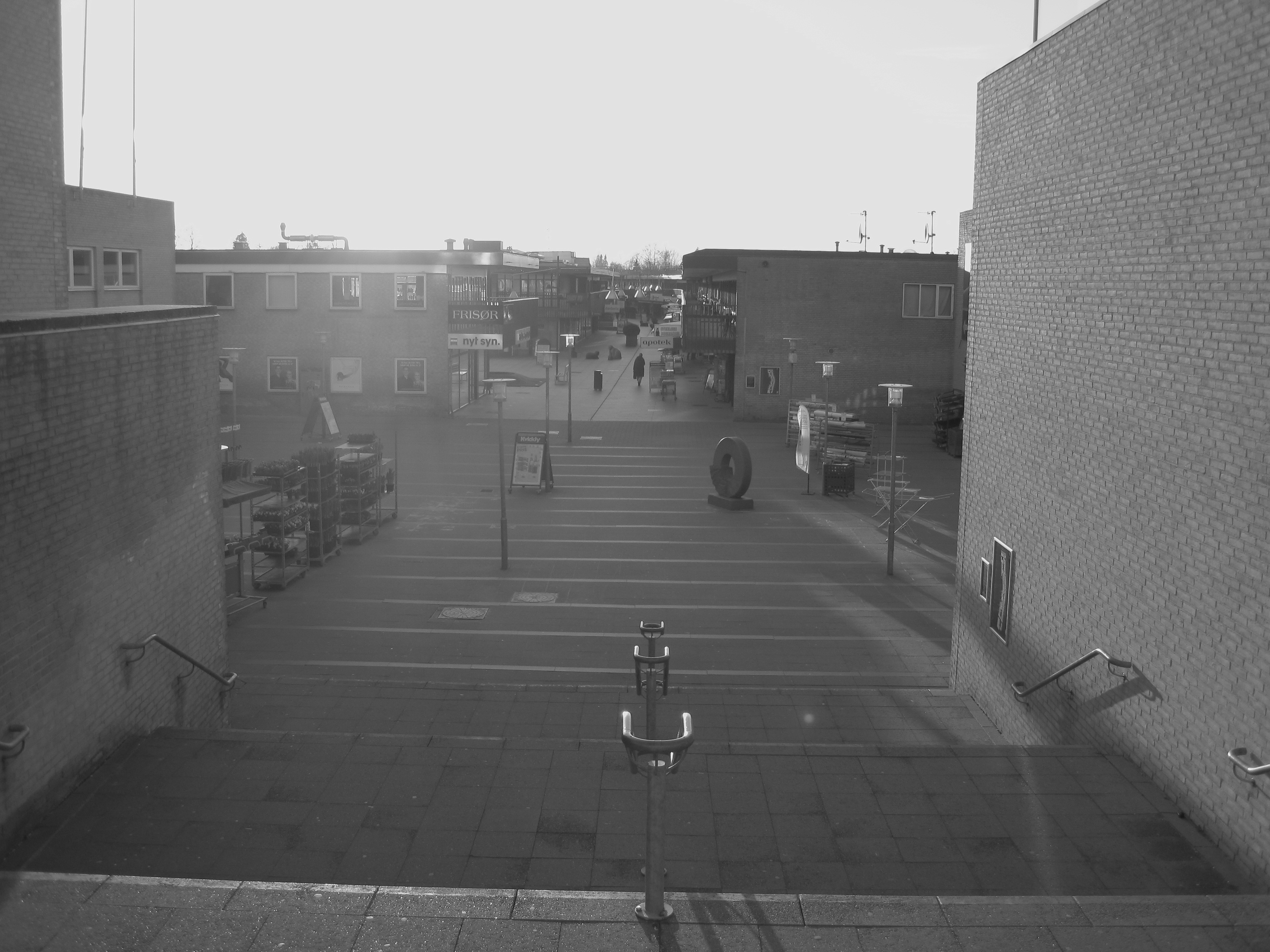 A greyscale photograph of Egedal Centret located in Stenløse. Taken the 25th of March 2020.